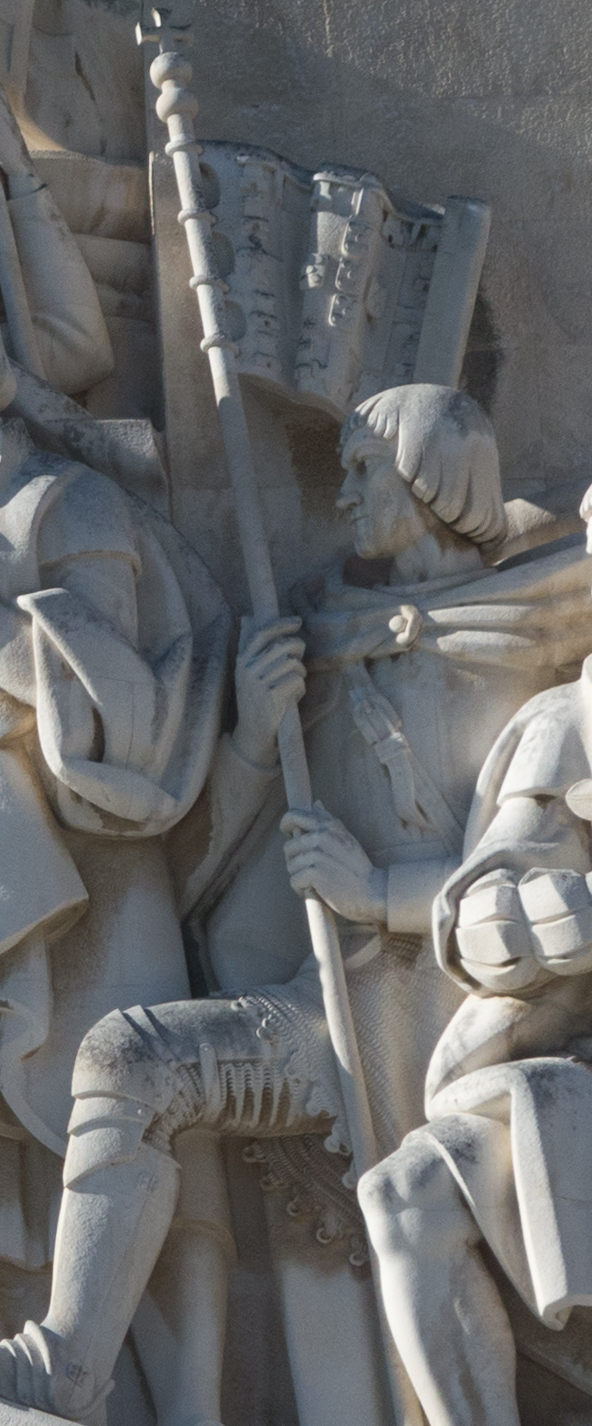 Effigy of Martim Afonso de Sousa (c.1490/1500-1564), a Portuguese militaryman and nobleman, in the Padrão dos Descobrimentos (Monument to the Discoveries), in Lisbon, Portugal.